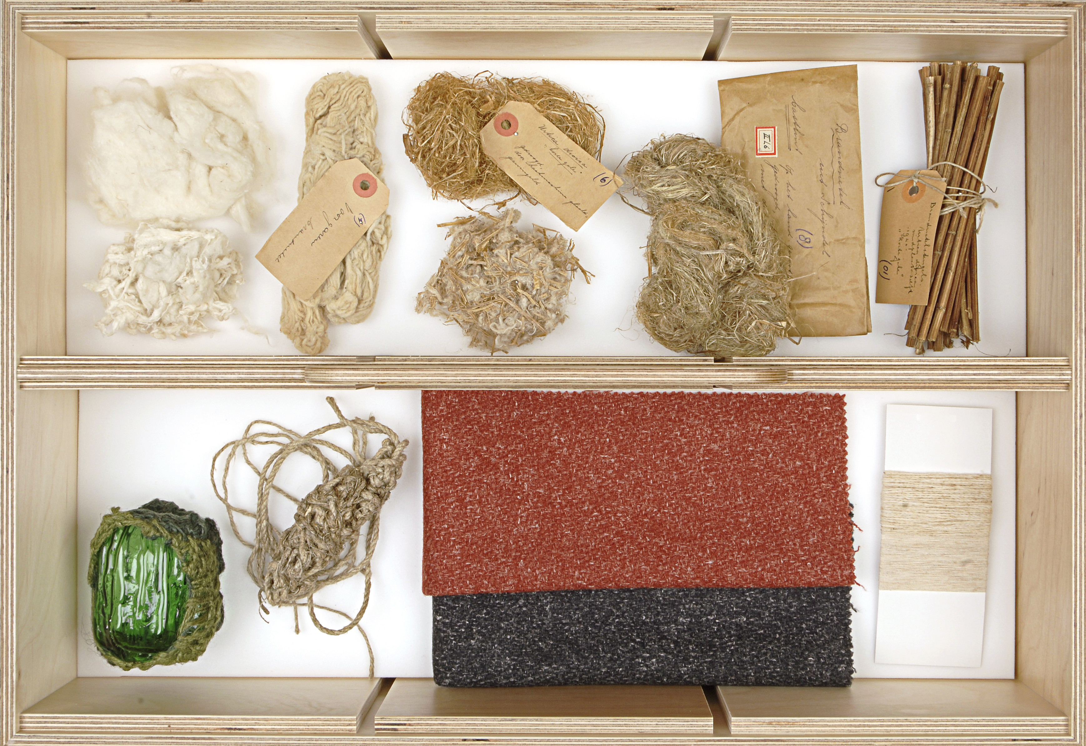 Nettle fiber, stem, yarn, textile, jewellery with glass and nettle yarn by Willemijn de Greef. Tray and samples of the textile cabinet in the Textielmuseum in Tilburg. Cabinet interior made by Simone de Waart, Material Sense.